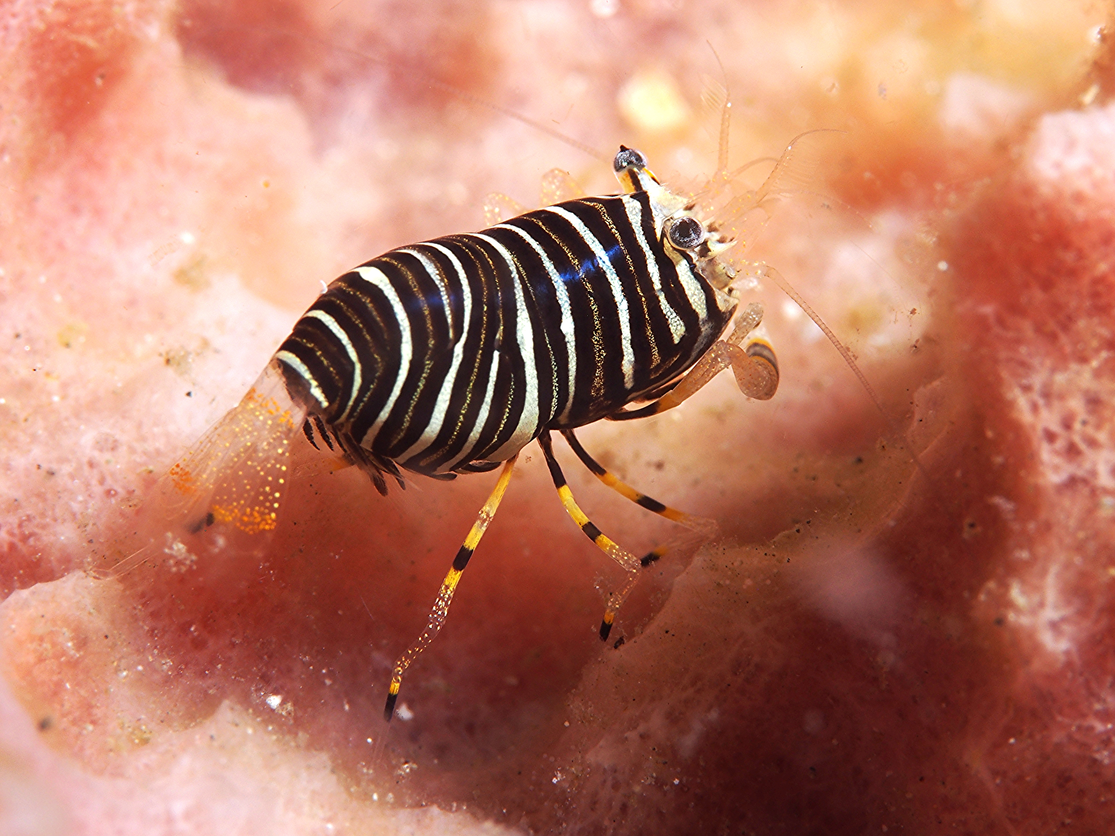 Lembeh, Indonesia - Bumblebee shrimp (Gnathophyllum americanum)